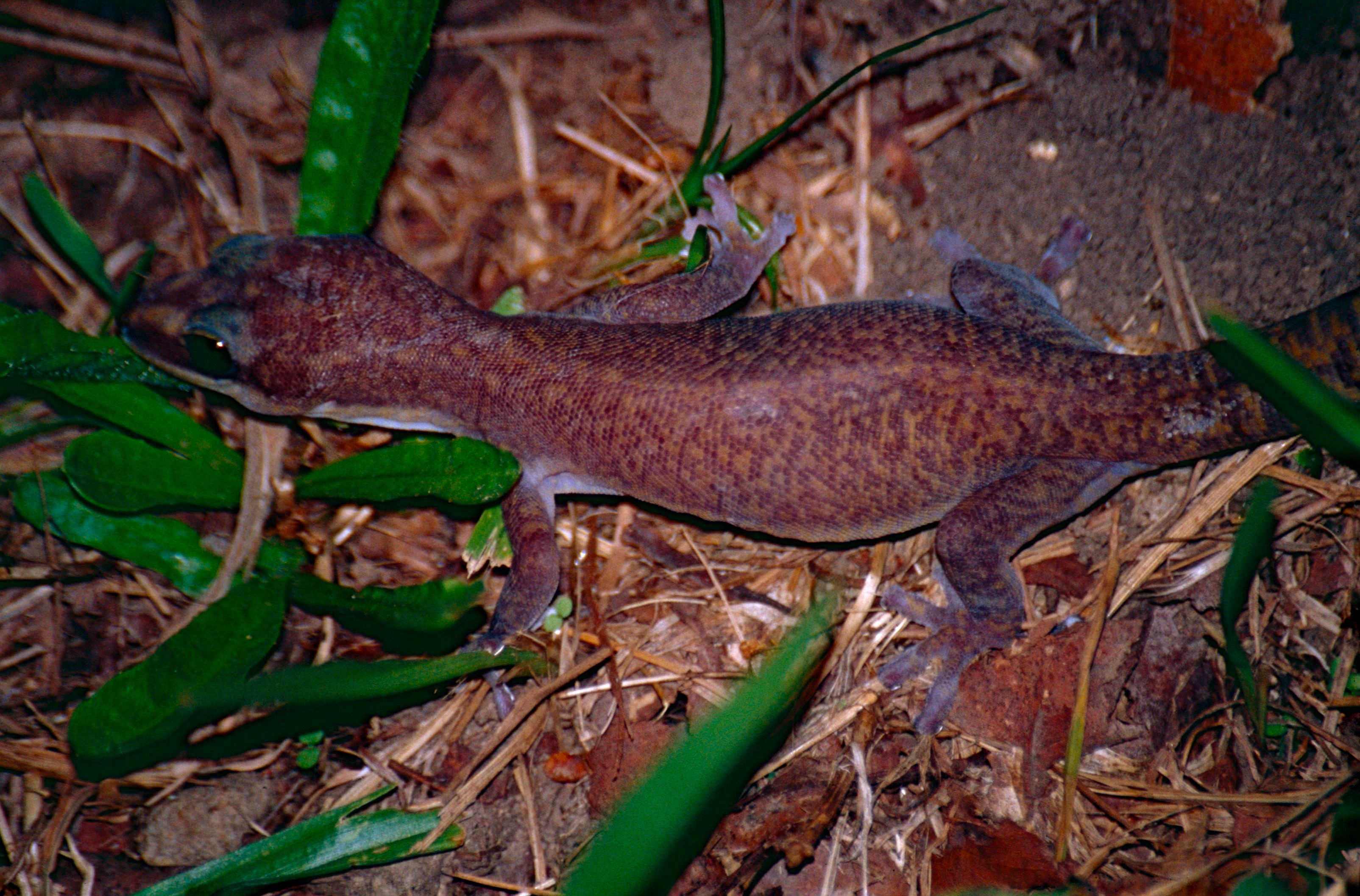 Eungella NP, Broken River, Central Queensland, AUSTRALIA Scanned Slide from Dec 2000